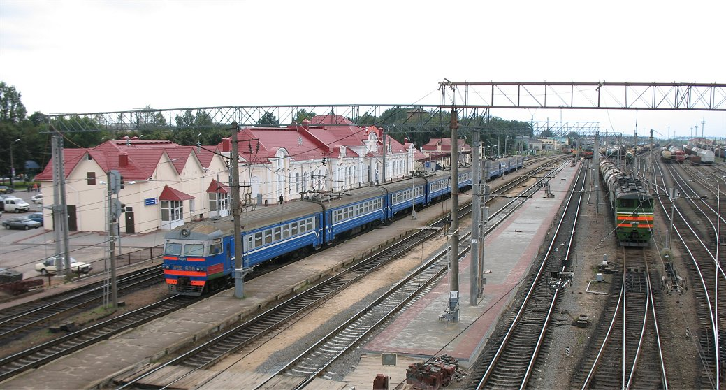 Railway station Maladzetšna (Маладзе́чна, Молоде́чно, Molodetšno, Mołodeczno, Maladzyechna) in northwestern Minsk Region, Belarus. This railway station is located on the main railway between Minsk and Vilnius. Its also serves as one of the key stations/ intersections as part of the local train network serving the Minsk region.